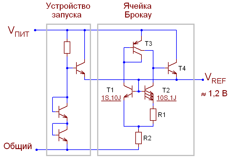 The original Brokaw bandgap reference, without opamp but with startup circuit (box on the left). Without this circuit, the Brokaw cell would remain shut down forever.